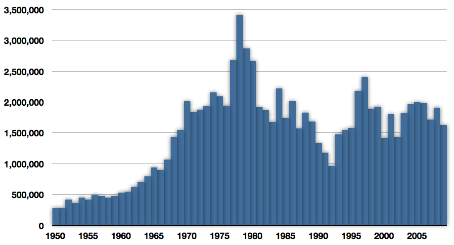 Fisheries recorded capture of chub mackerel Scomber japonicus from 1950 to 2009. Data source FAO fisheries